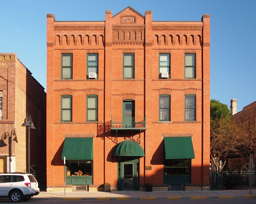 Commercial Hotel, Wadena, Minnesota, USA. Viewed from the northwest, corrected for tilt distortion.